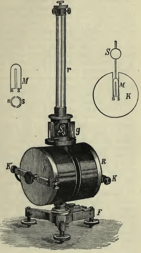 A very suitable form of galvanometer to be used as a ballistic galvanometer, in which r, r are the coils, and inside which is suspended a bell-shaped magnet, devised by Messrs. Siemens and Halske, seen in elevation in m, and in plan in n s, to the left.